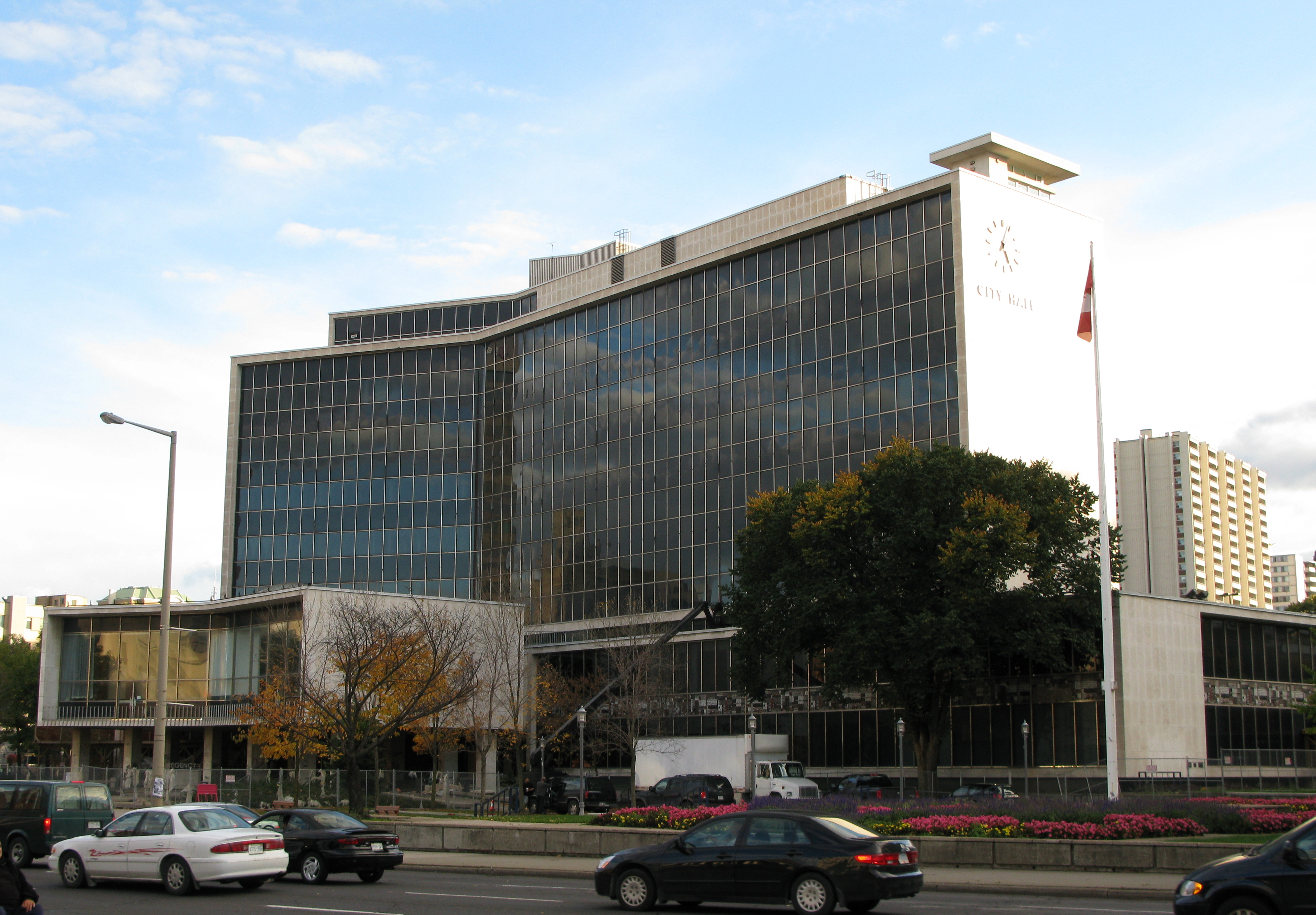 Hamilton City Hall, 71 Main Street West, Hamilton, Ontario